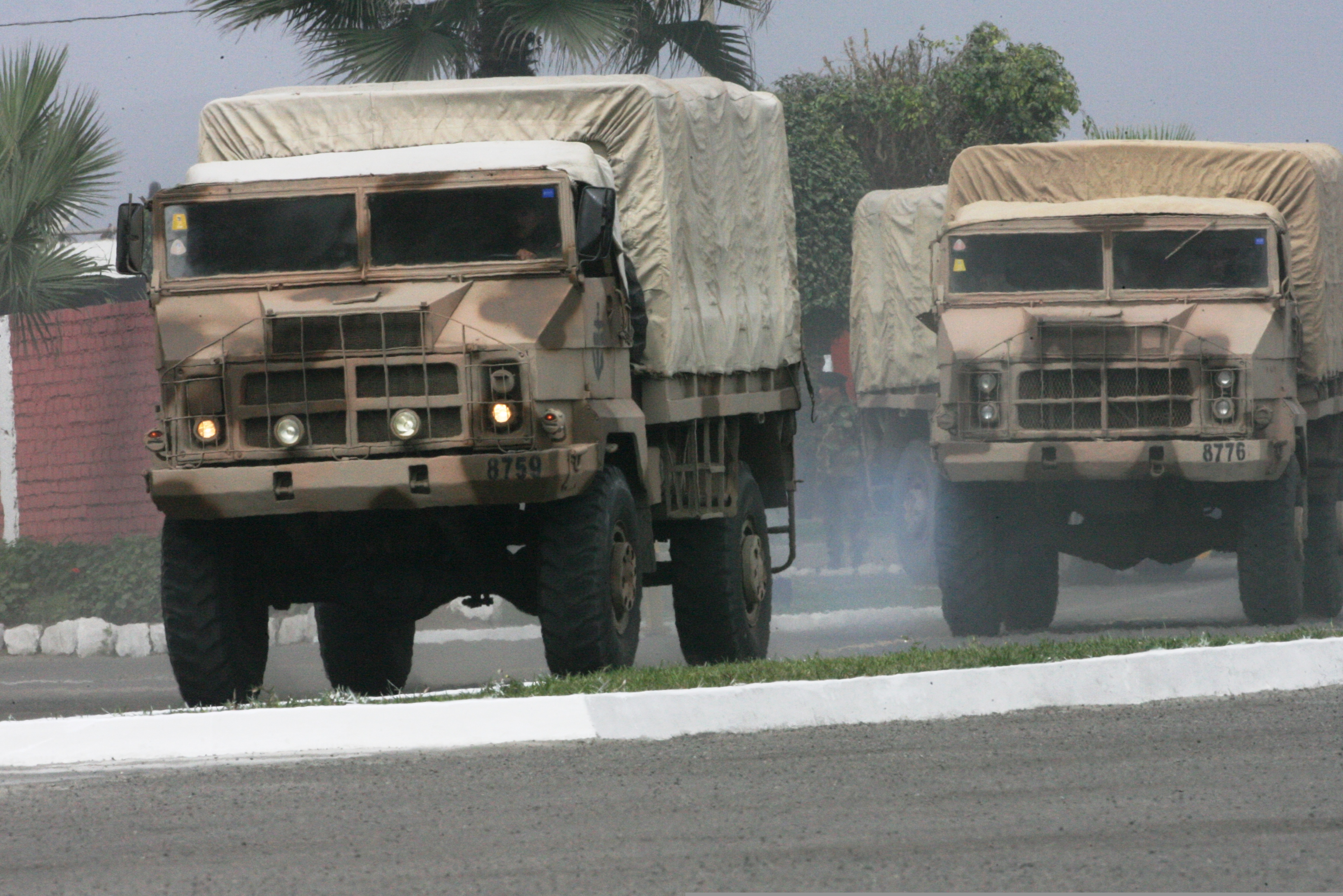 Peruvian naval infantry troop transport trucks move into security positions in support of noncombatant evacuation training during Partnership of the Americas/Southern Exchange in Ancon, Peru, July 18, 2010. This year's partner nations included Argentina, Brazil, Ecuador, Colombia, Mexico, Paraguay, Peru, the United States, Uruguay and Canada.